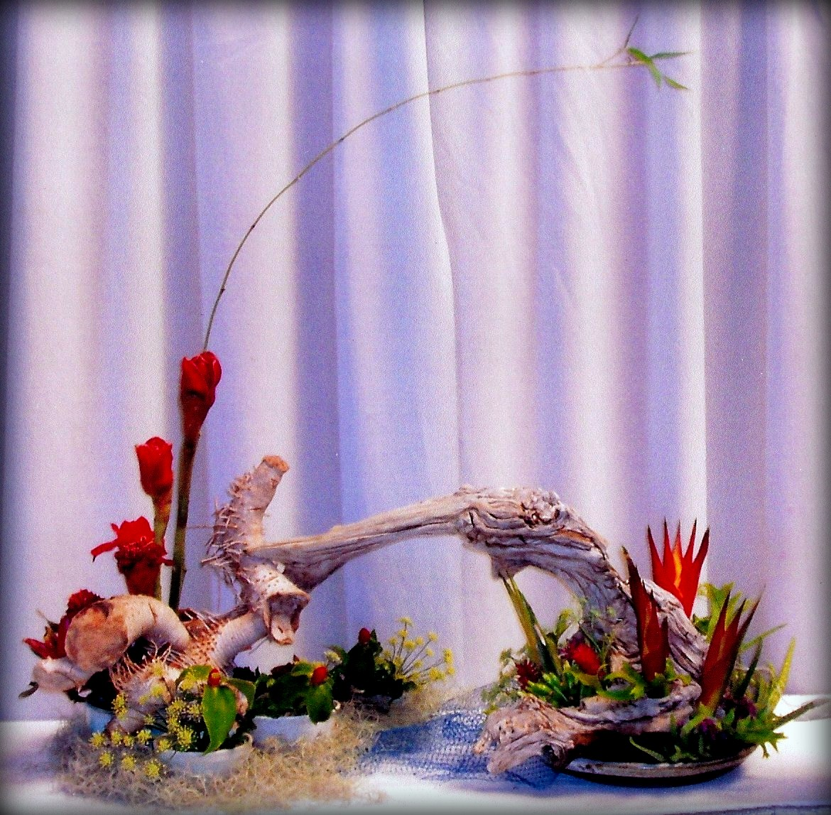 Double Moribana Hallmark Design, created by Bessie Banmi Fooks, 2001 for the Honolulu Hale, one of Hawaii’s historical building which was originally called the Honolulu Municipal Building. Flowers used are: Alpinia (Tropical Torch Ginger), upright Heliconia, Costus Barbatus (Spiral Ginger), & Fennel; Line materials used are: Seaweed. & Bamboo Whip. Containers used are vintage suiban from Japan.